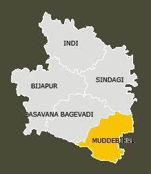 MDL bijapur